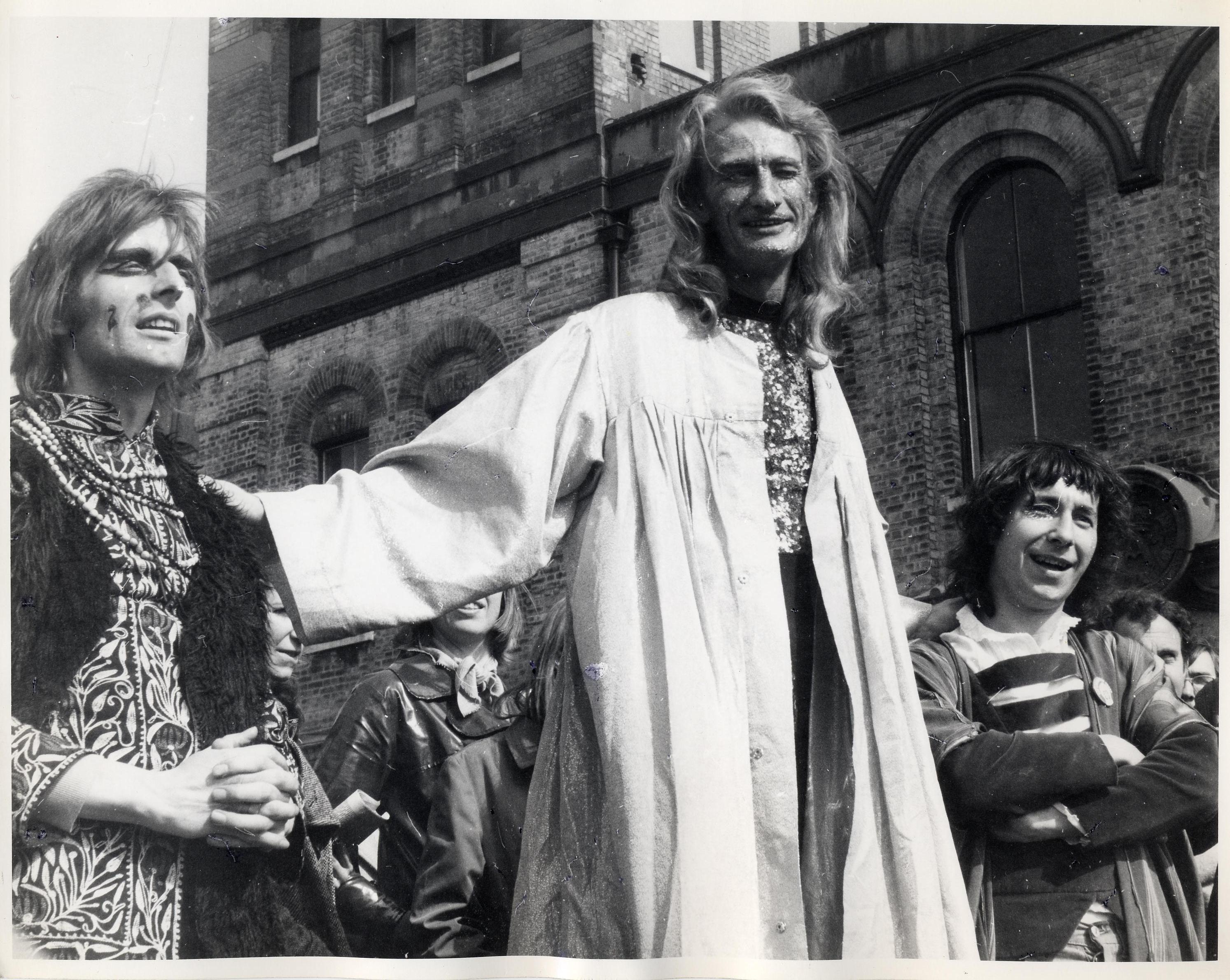 HCA/CHESTERMAN